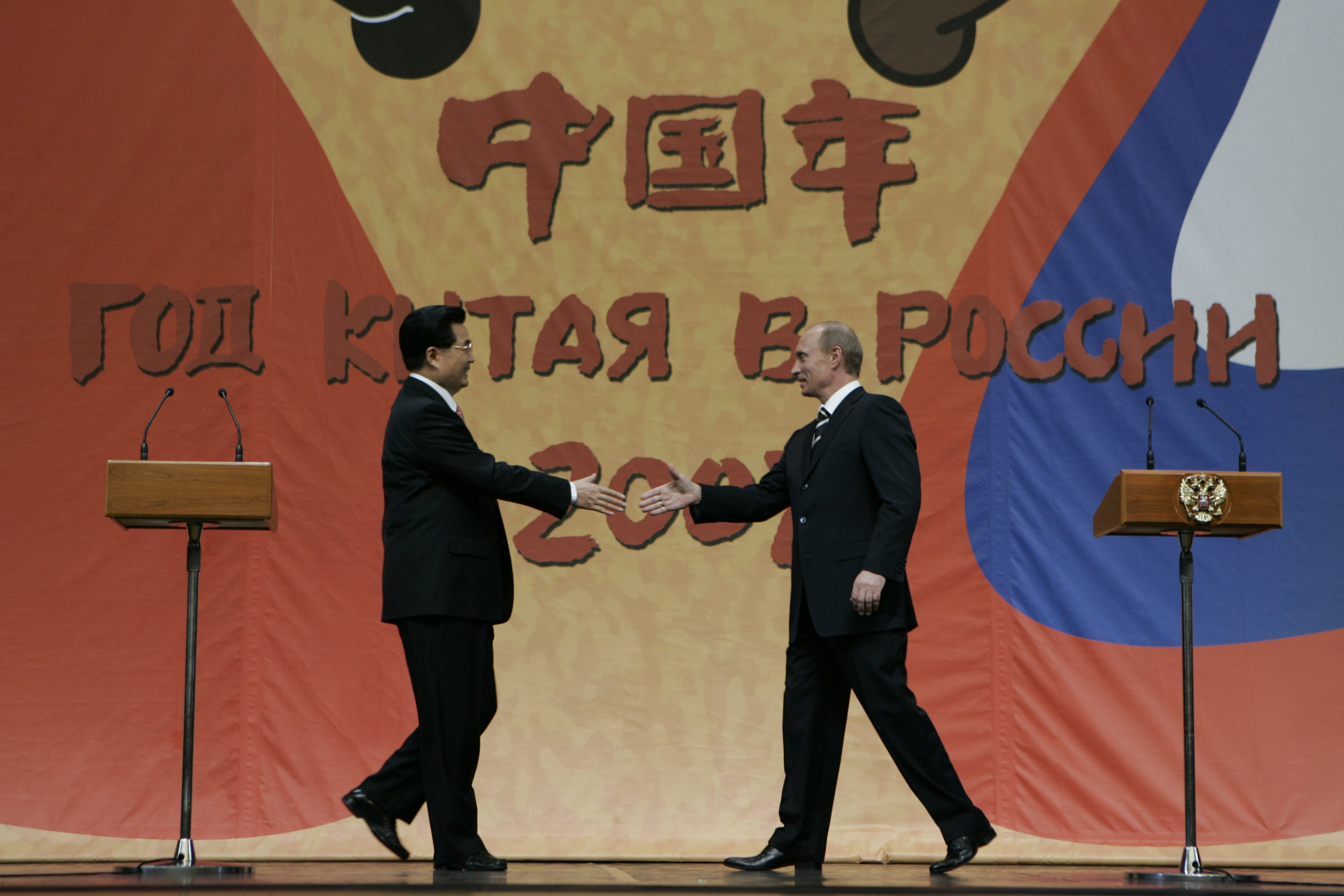 THE KREMLIN, MOSCOW. At the opening ceremony of the Year of China in Russia.